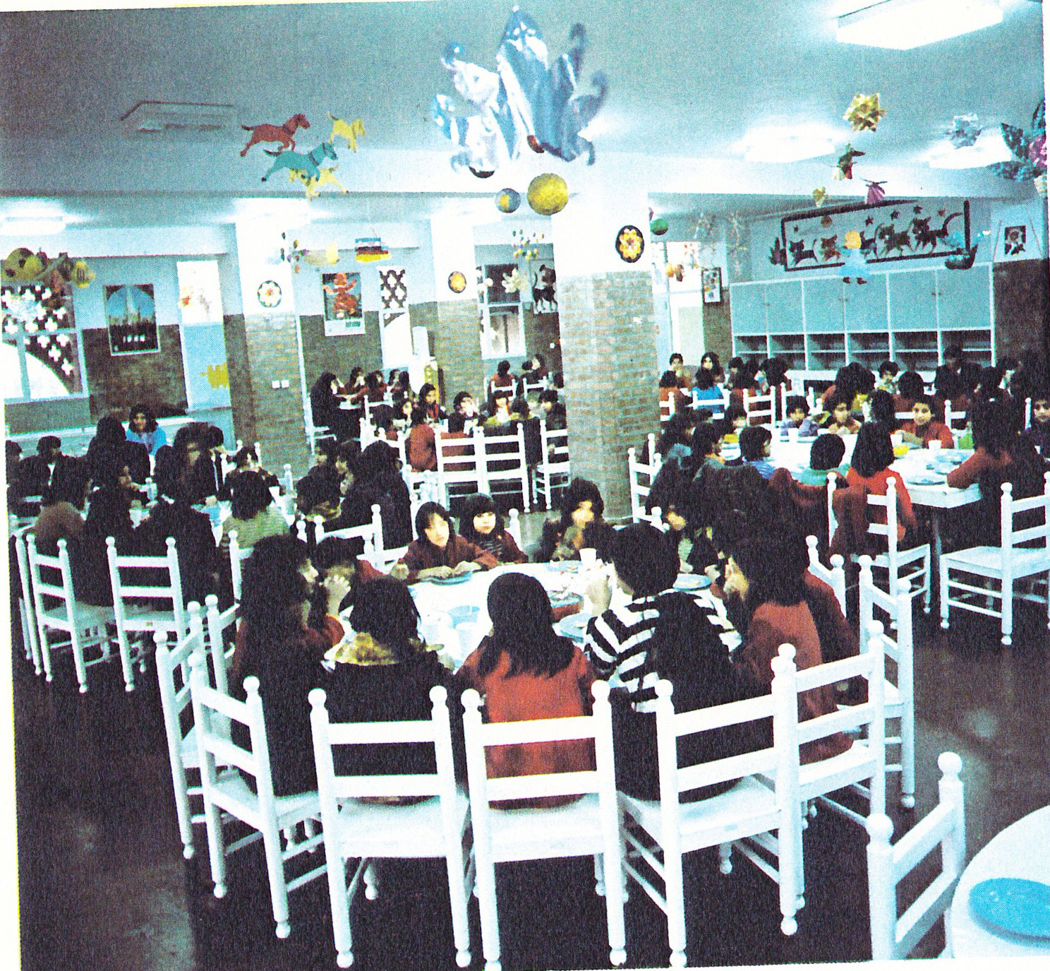 summer camp Niavaran, Tehran, Iran